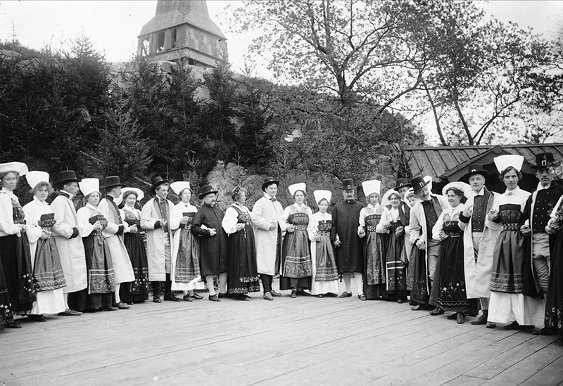 Depicted person: Hulda Garborg, Norge (1862-1934)